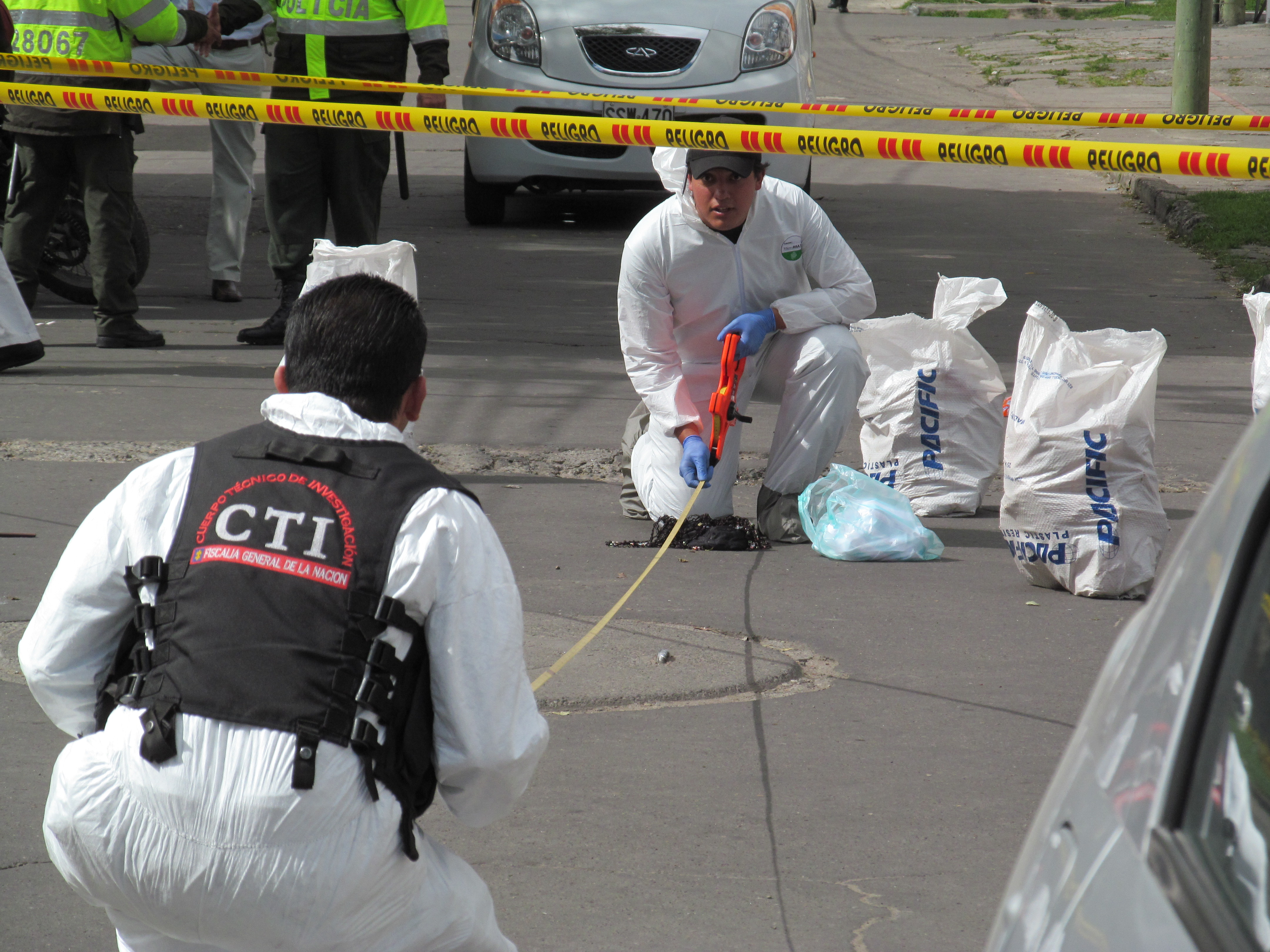 The wig used by the suspected FARC attacker of the 2012 Bogota, Colombia car bombing, targeting the former minister, Fernando Londono.